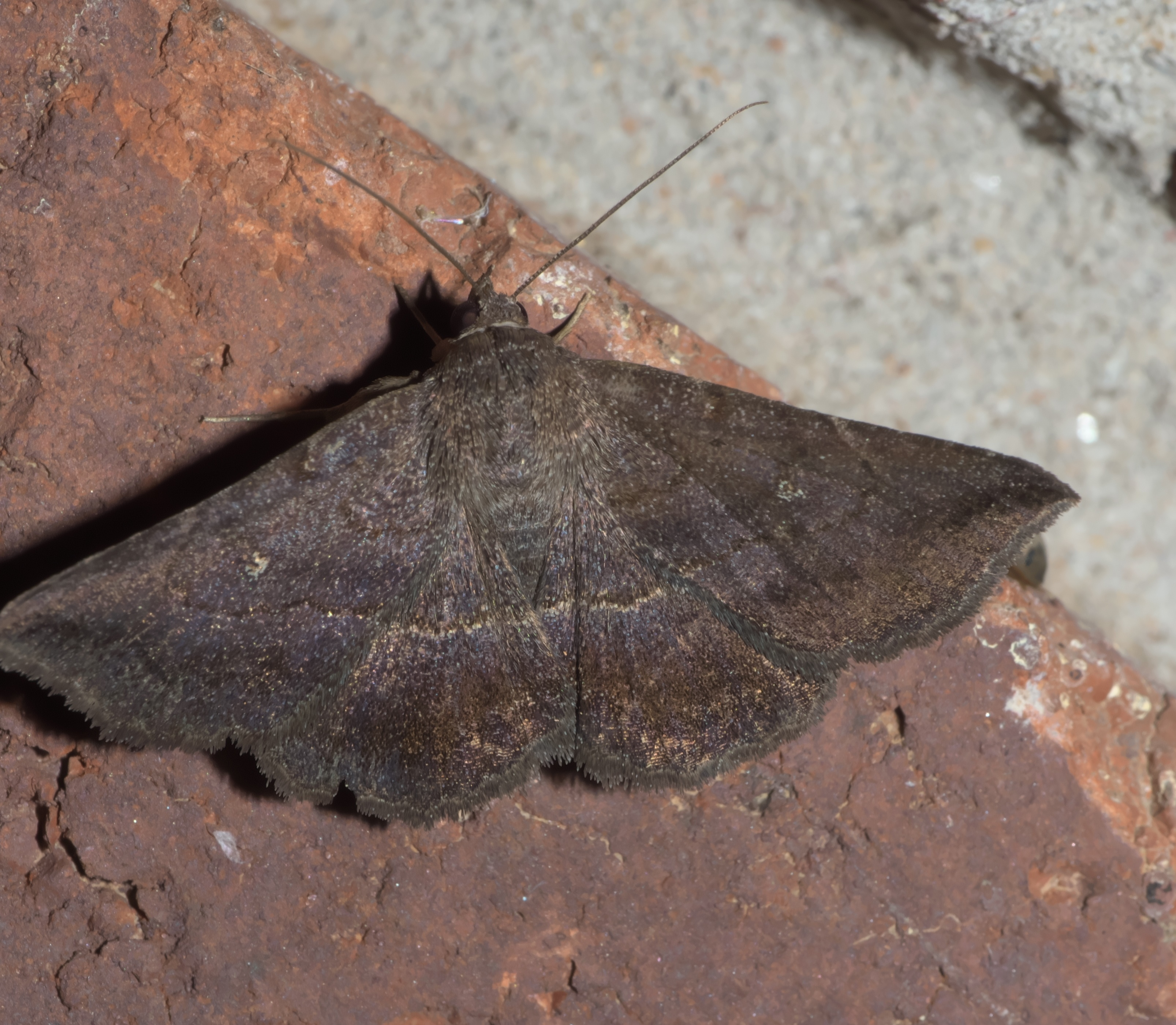 Lesmone detrahens, Detracted Owlet - Hodges #8651, ID Confidence: 90